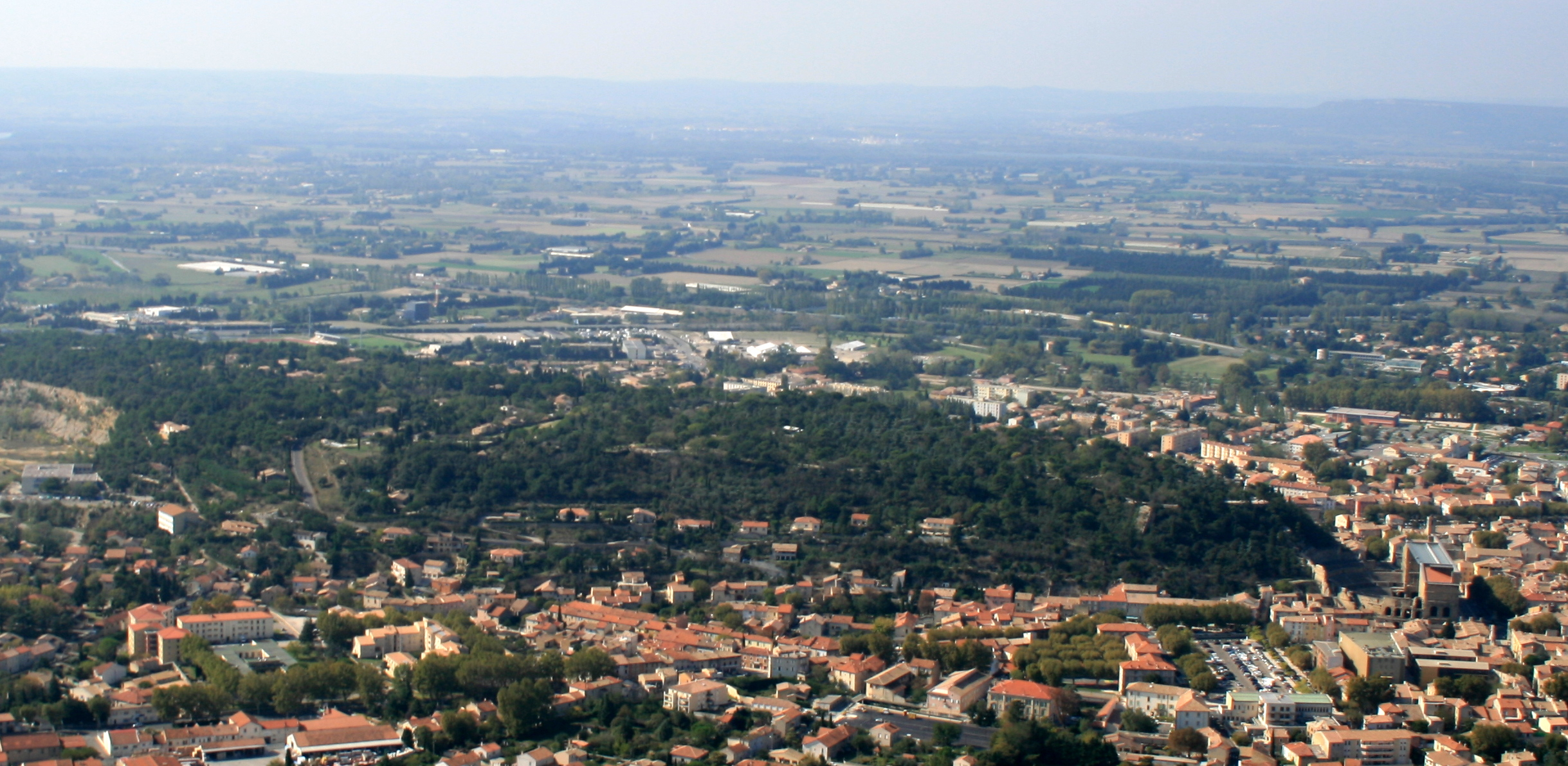 Saint Eutrope'hill seen from est side.